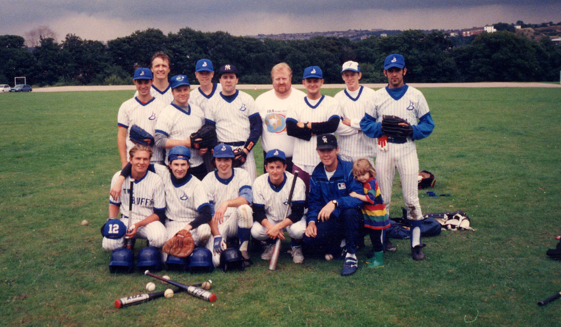 1980s Bladerunners